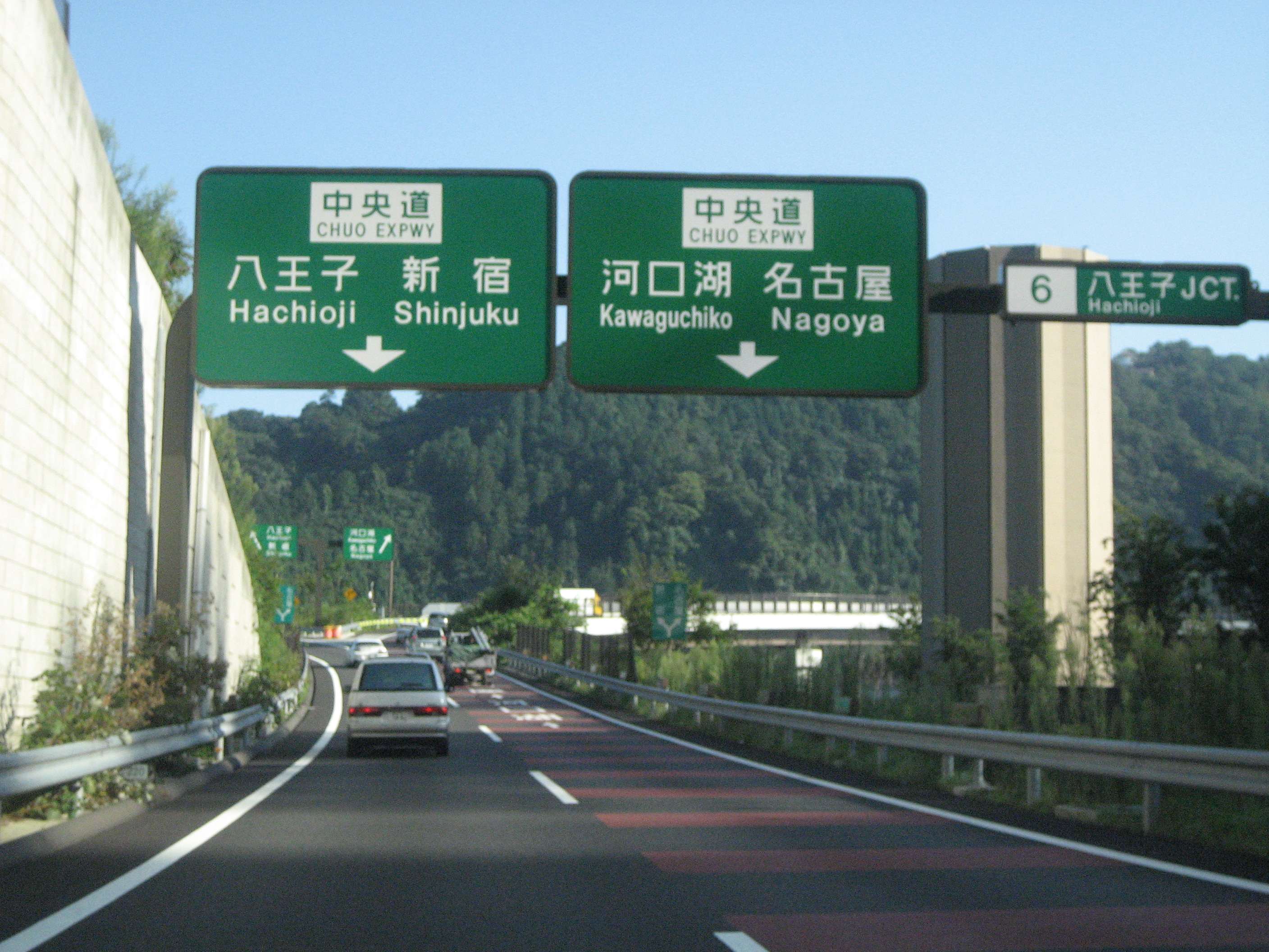 Hachioji Junction on the Ken-o Expressway